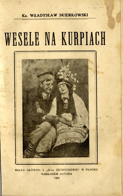 Wladysław Skierkowski, "Wesele na Kurpiach (1933) - cover of book